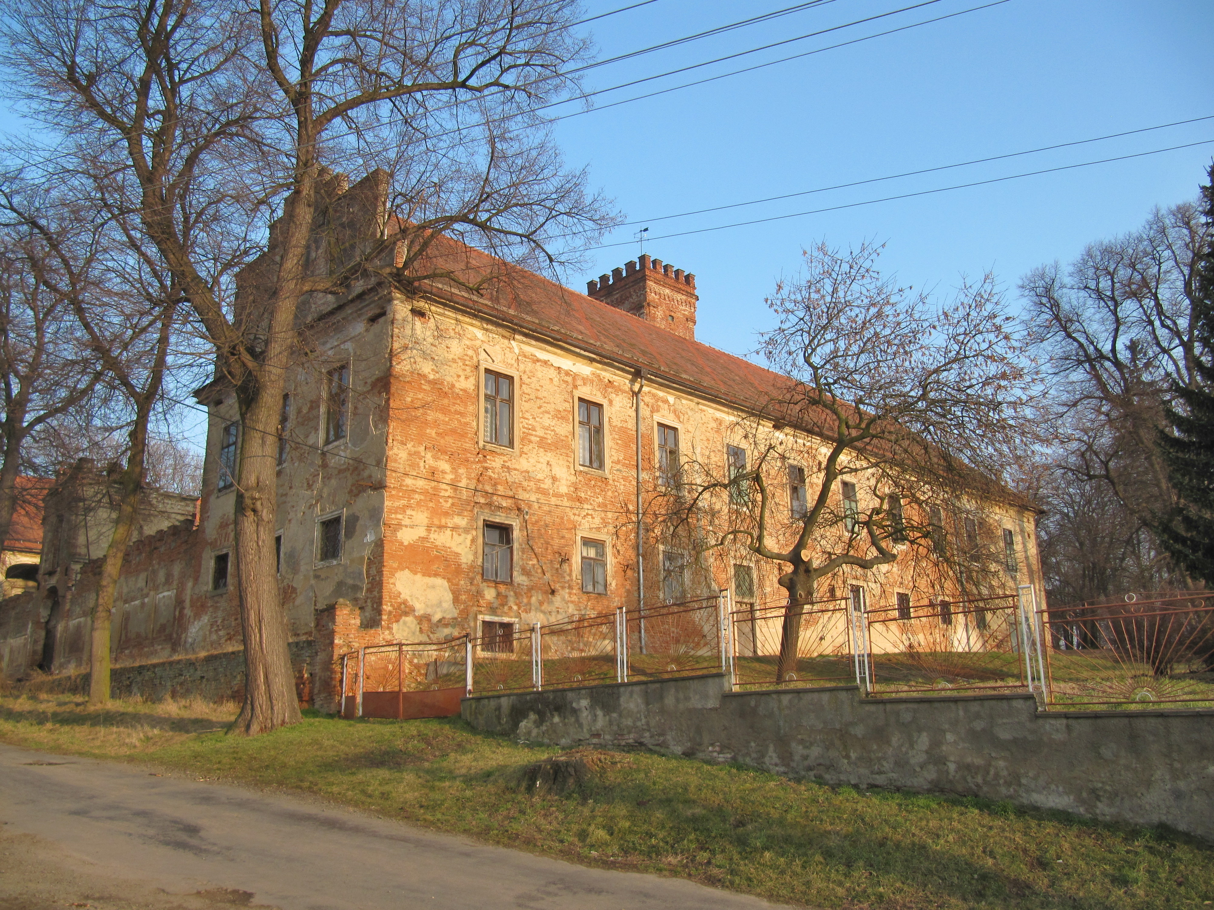 Dřínov, Kroměříž District, Czech Republic. Castle.